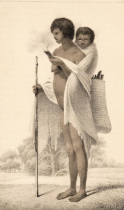 Aboriginal mother and child at Nangeela